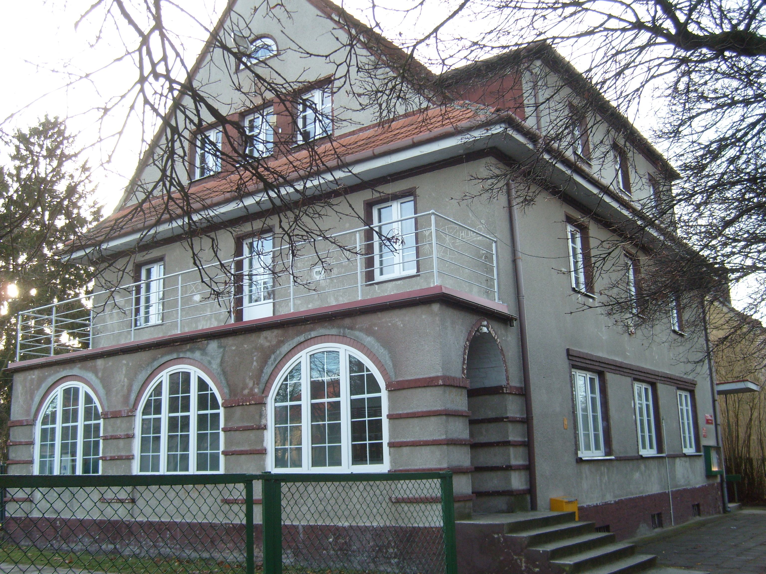 The Community Centre of Trzcianka